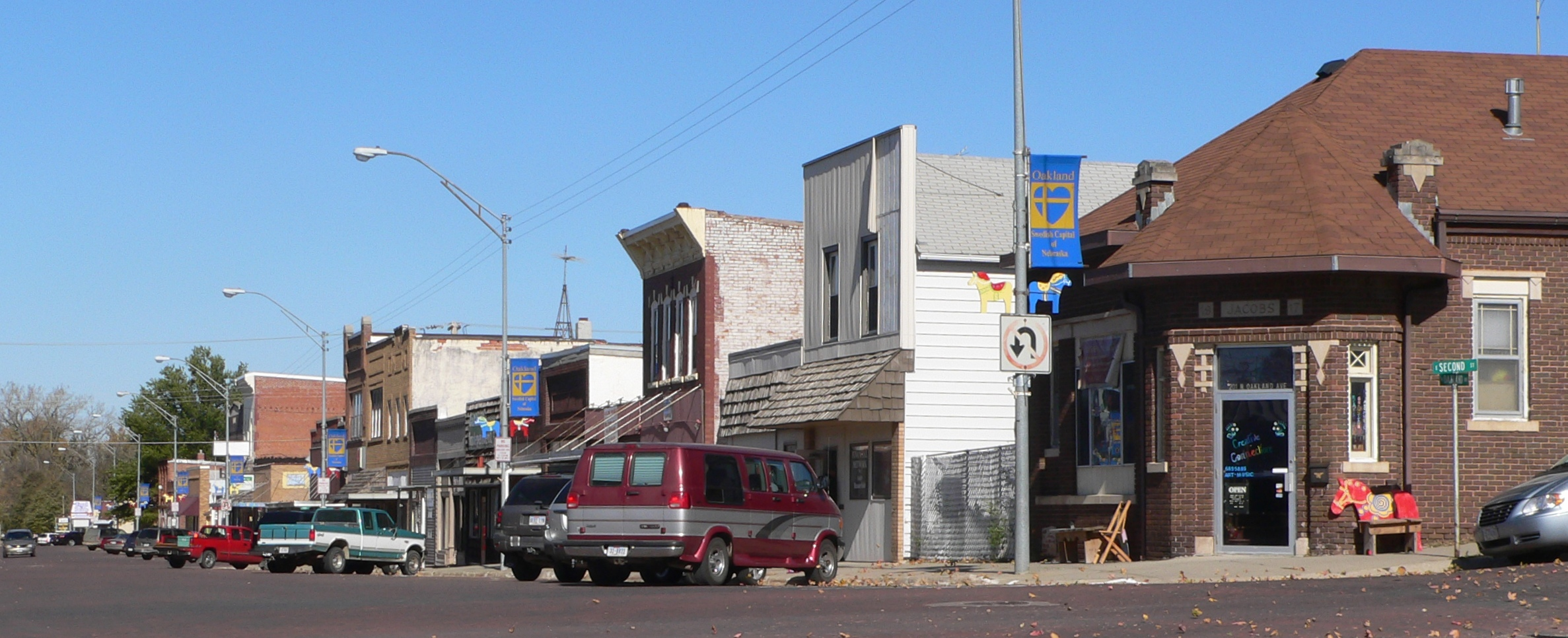 Downtown Oakland, Nebraska: east side of Oakland Avenue, looking northeast from about 2nd Street.